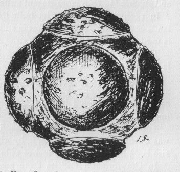 This petrosphere was found at Jock's Thorn Fram near Kilmaurs in Ayrshire. They are well known from northern Scotland, however this is the only one from Ayrshire.